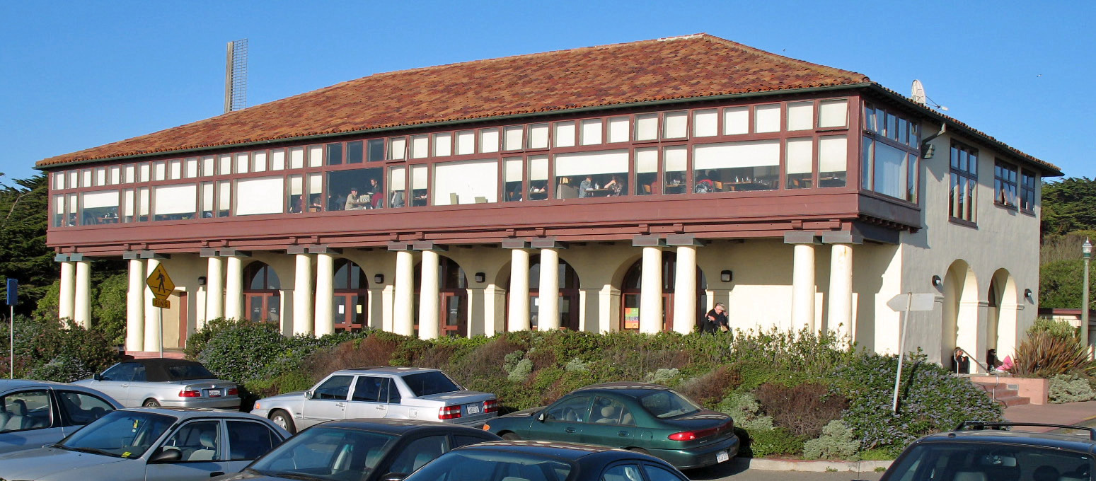 Beach Chalet — 1000 Great Highway, western Golden Gate Park, San Francisco, California. On the National Register of Historic Places in San Francisco. Photographed 2008-03-16 by Mike Hofmann from sidewalk on east side of Great Highway.